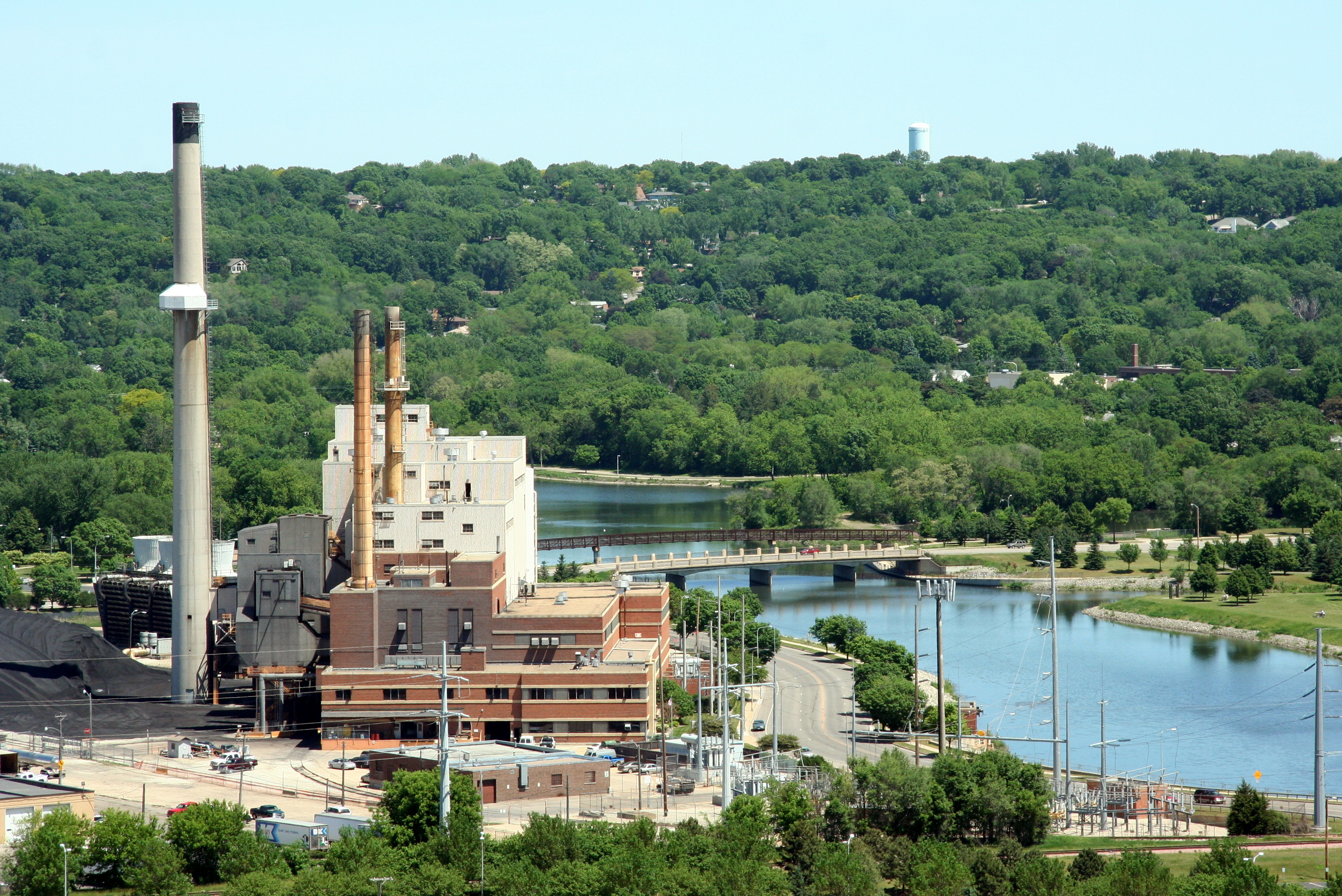 Rochester Public Utilities (RPU) Silver Lake Power Plant seen from the top of the Mayo Clinic Plummer Building in downtown Rochester, Minnesota. To the left of the plant is a large pile of coal; to the right is the Zumbro River.